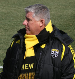 Sigi Schmid at the first game of the 2008 season for the Columbus Crew. The game took place at Columbus Crew Stadium, on March 29, 2008 vs Toronto FC. I shot this photograph using my Canon Digital Rebel XTi at 4:06PM EDT just before kickoff.